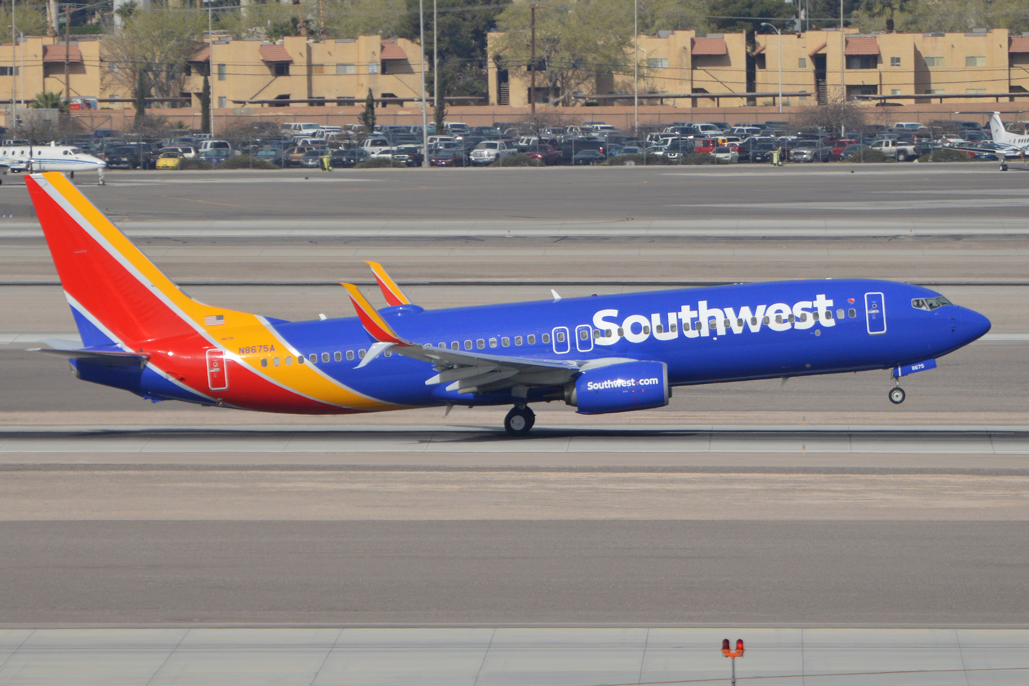 c/n 359769, l/n 5701. Built 2015. Seen departing on flight SWA1002 to Indianapolis. McCarran International Airport, Las Vegas, NV, USA. 3rd March 2016.